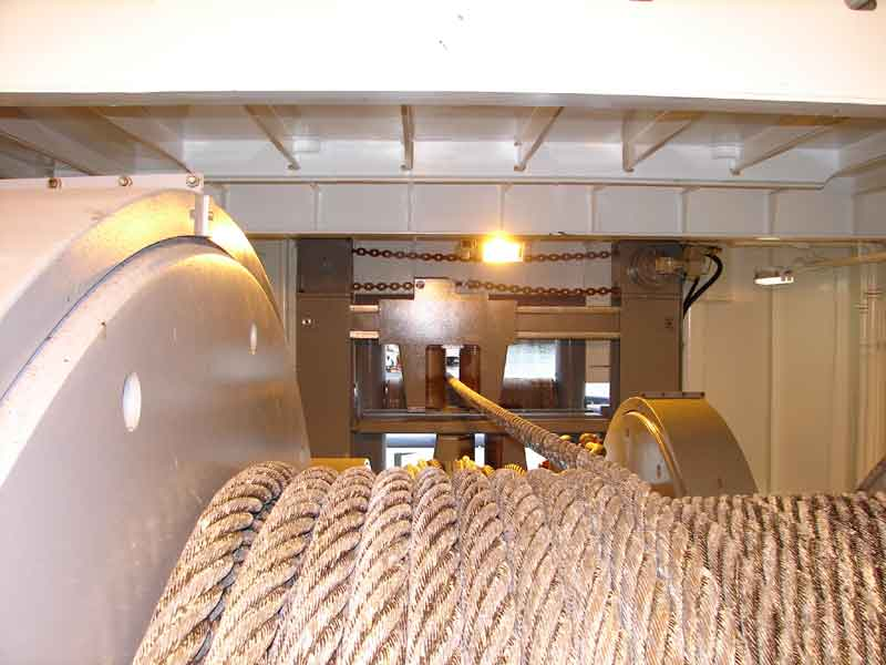 Main towing windlass on the salvage tug Abeille Bourbon